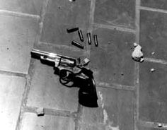 Charles Whitman's .357 Magnum